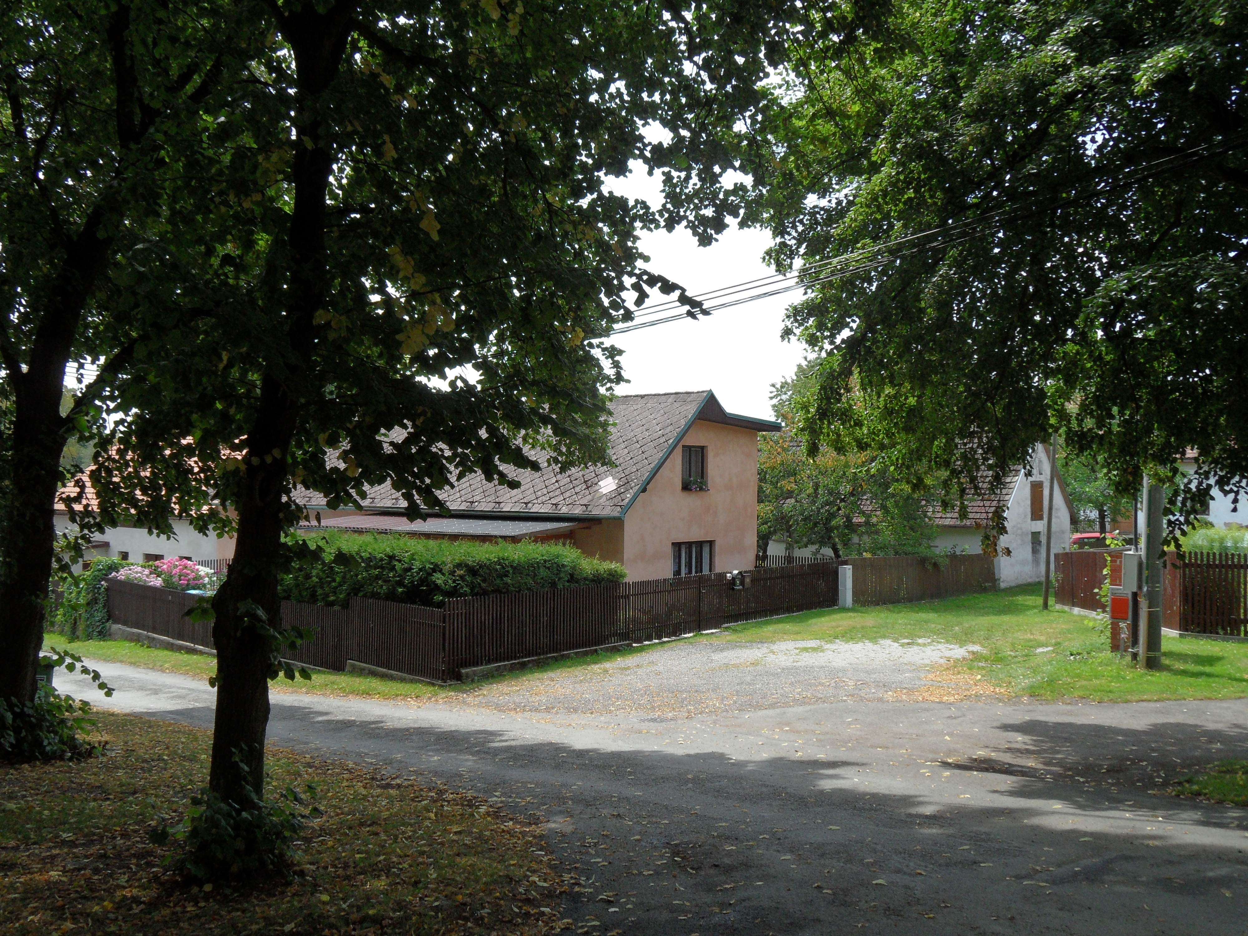 Velká Skalice (Zbraslavice) E. Houses at Crossroads, Kutná Hora District, the Czech Republic.